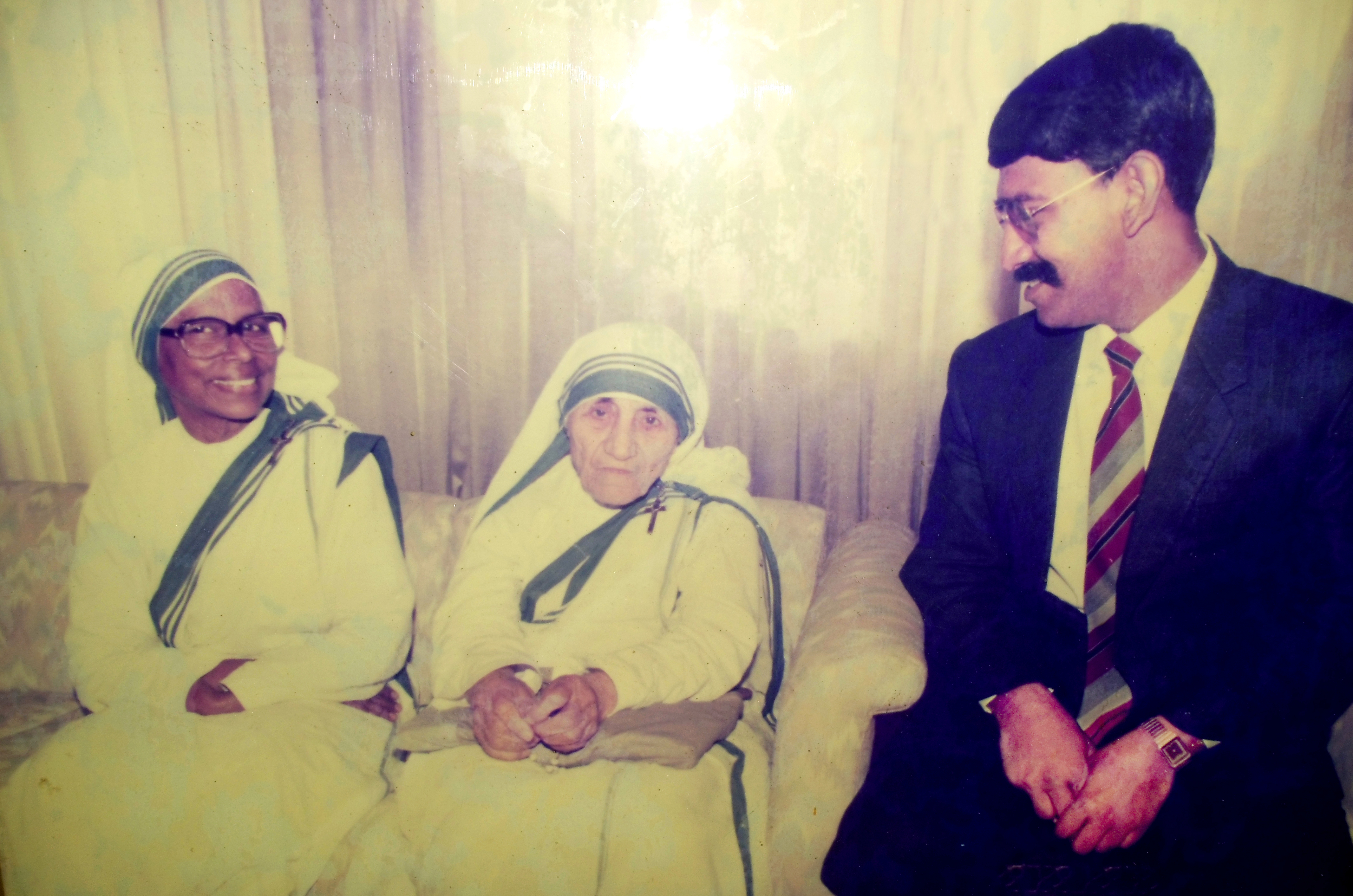 Mohammad Mosaddak Ali met with the great humanitarian, Mother Teresa at Zia International Airport in Dhaka, Bangladesh on April, 1991.